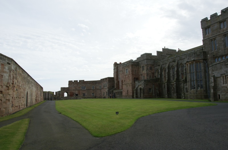 Bamburgh Castle, Northumberland, England. Inner Ward looking east.